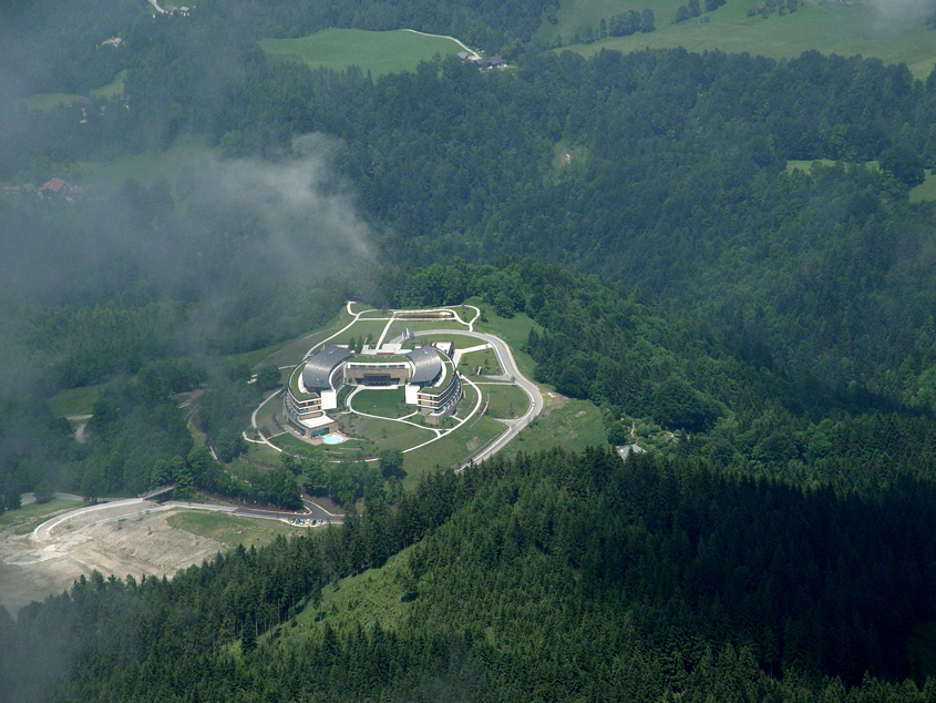 Hotel Intercontinental Obersalzberg seen from the Eagle's Nest. The hotel has been renamed "Kempinski Hotel Berchtesgaden" in 2014.